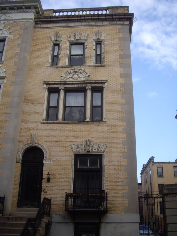 Will Marrion Cook house in New York City, a National Historic Landmark